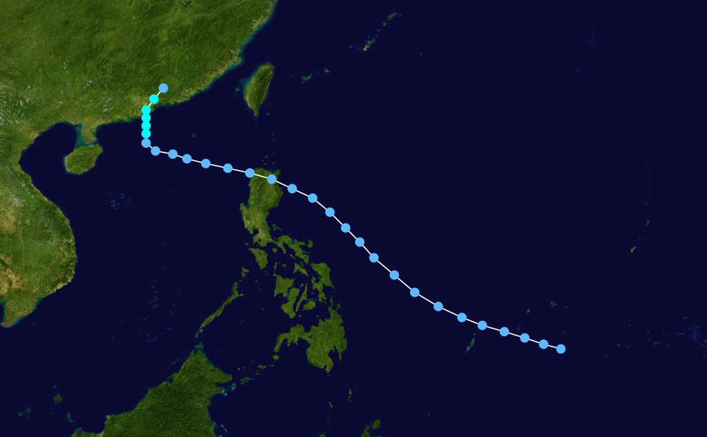 Tropical Storm Faye 1992 track. Uses the color scheme from the Saffir-Simpson Hurricane Scale.